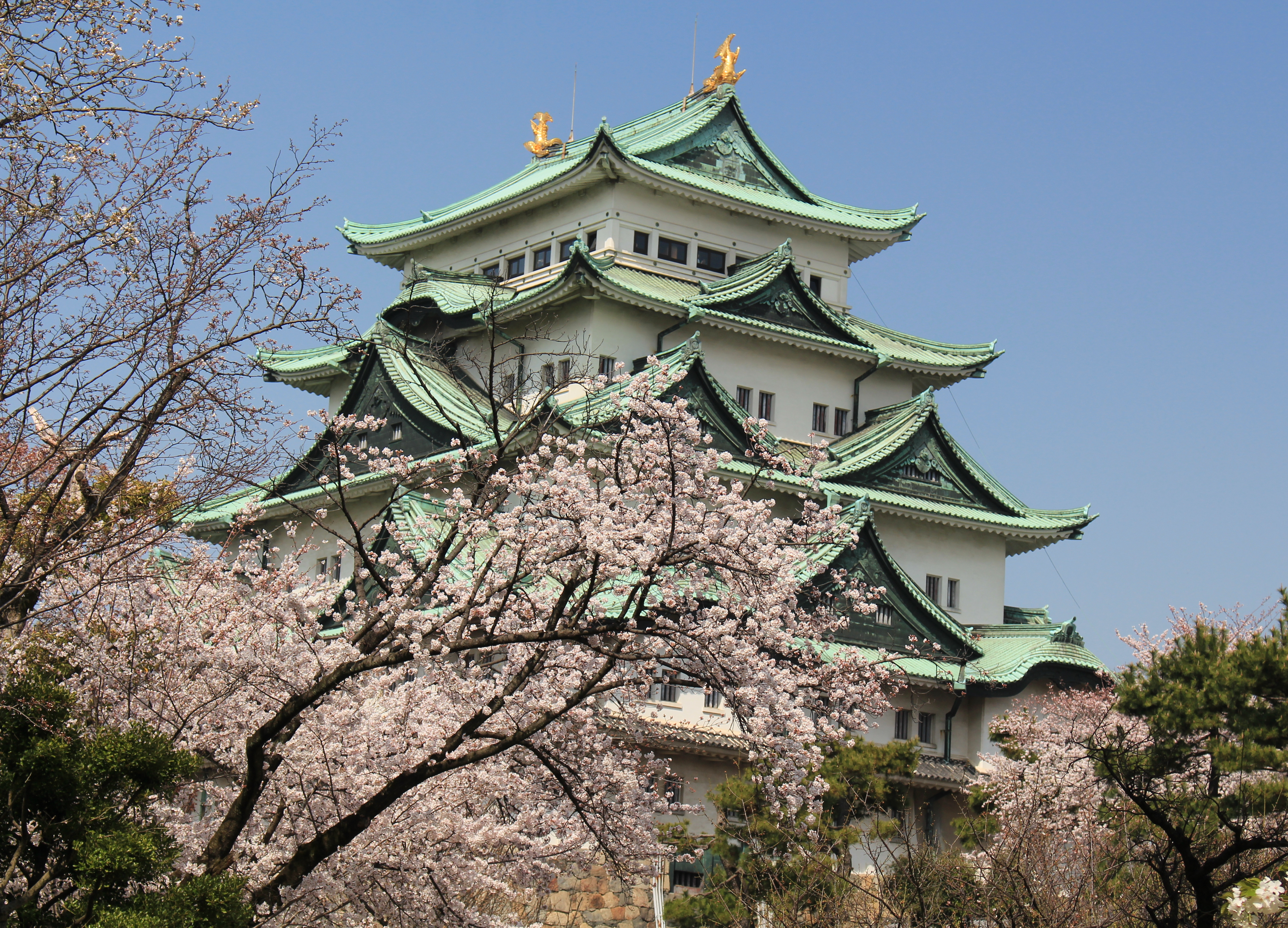 Nagoya Castle Keep Tower and Sakura in Nagoya, Aichi prefecture, Japan.